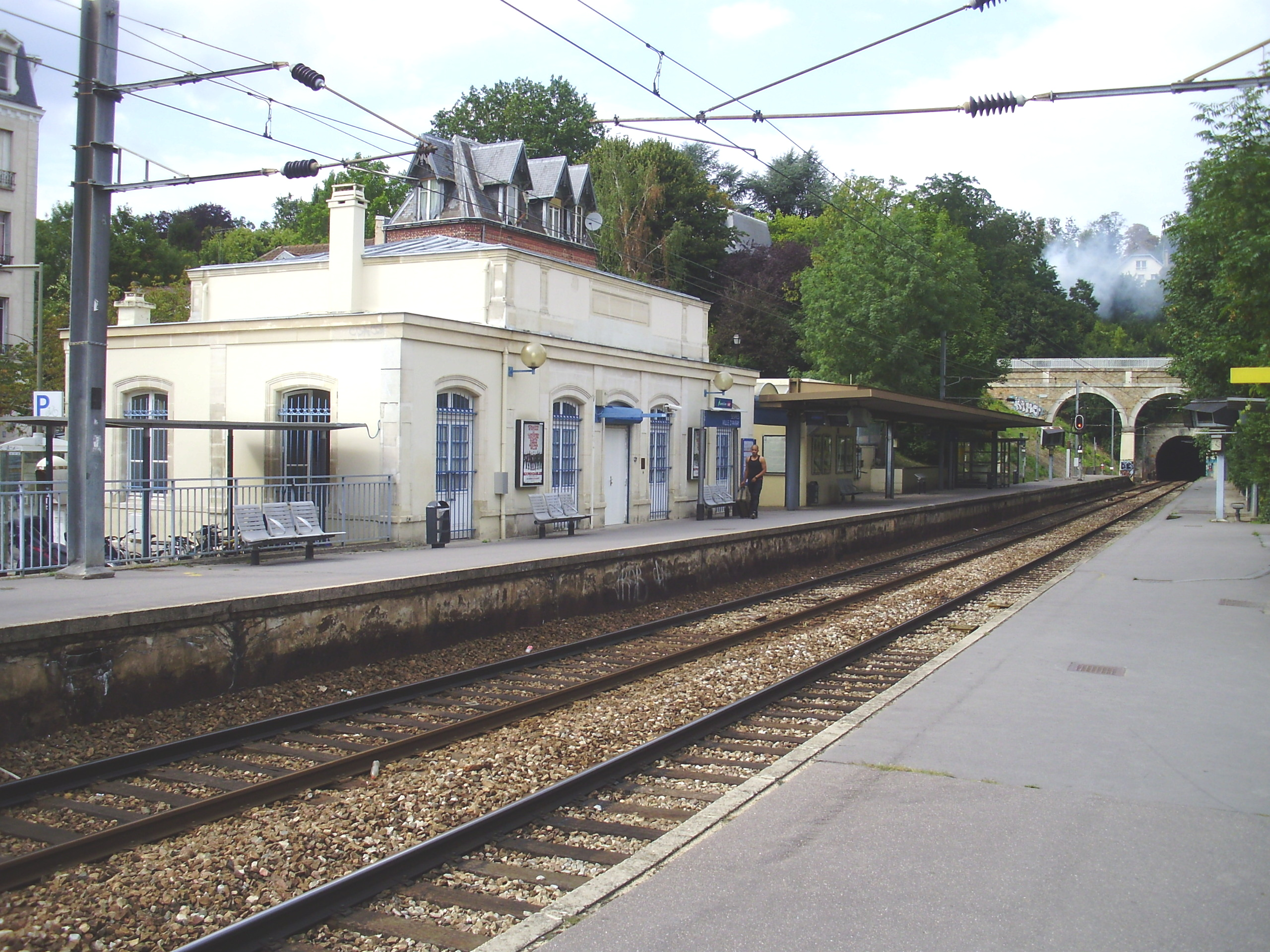 Sèvres - Ville-d'Avray station, in Sèvres, Hauts-de-Seine, France (building of the station seen from the platform to Versailles)